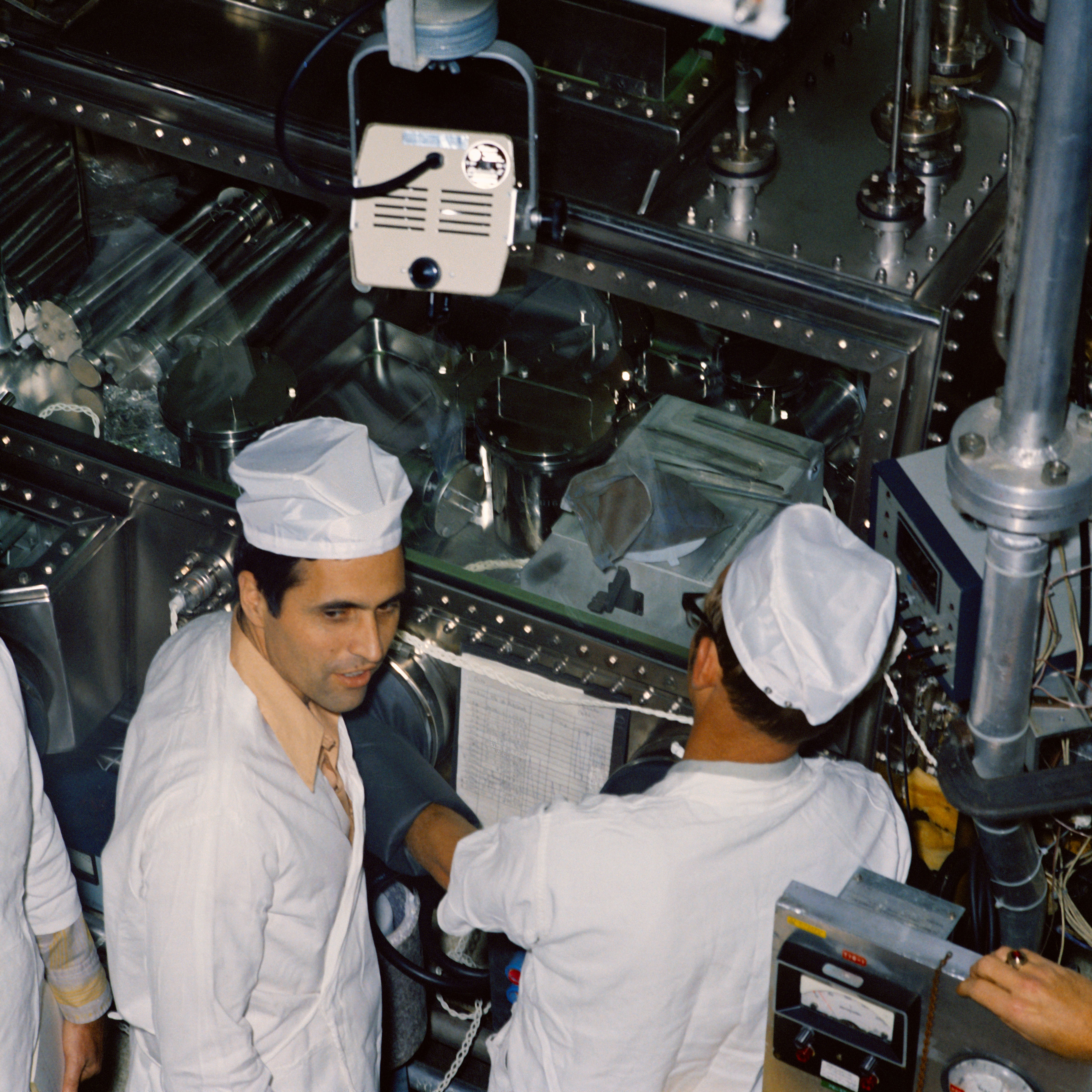 S72-56362 (27 Dec. 1972) --- Scientist-astronaut Harrison H. "Jack" Schmitt (facing camera), Apollo 17 lunar module pilot, was one of the first to look at the sample of "orange" soil which was brought back from the Taurus-Littrow landing site by the Apollo 17 crewmen. Schmitt discovered the material at Shorty Crater during the second Apollo 17 extravehicular activity (EVA). The "orange" sample, which was opened Wednesday, Dec. 27, 1972, is in the bag on a weighing platform in the sealed nitrogen cabinet in the upstairs processing line in the Lunar Receiving Laboratory at the Manned Spacecraft Center. Just before, the sample was removed from one of the bolt-top cans visible to the left in the cabinet. The first reaction of Schmitt was "It doesn't look the same." Most of the geologists and staff viewing the sample agreed that it was more tan and brown than orange. Closer comparison with color charts showed that the sample had a definite orange cast, according the MSC geology branch Chief William Phinney. After closer investigation and sieving, it was discovered that the orange color was caused by very fine spheres and fragments of orange glass in the midst of darker colored, larger grain material. Earlier in the day the "orange" soil was taken from the Apollo Lunar Sample Return Container No. 2 and placed in the bolt-top can (as was all the material in the ALSRC "rock box").